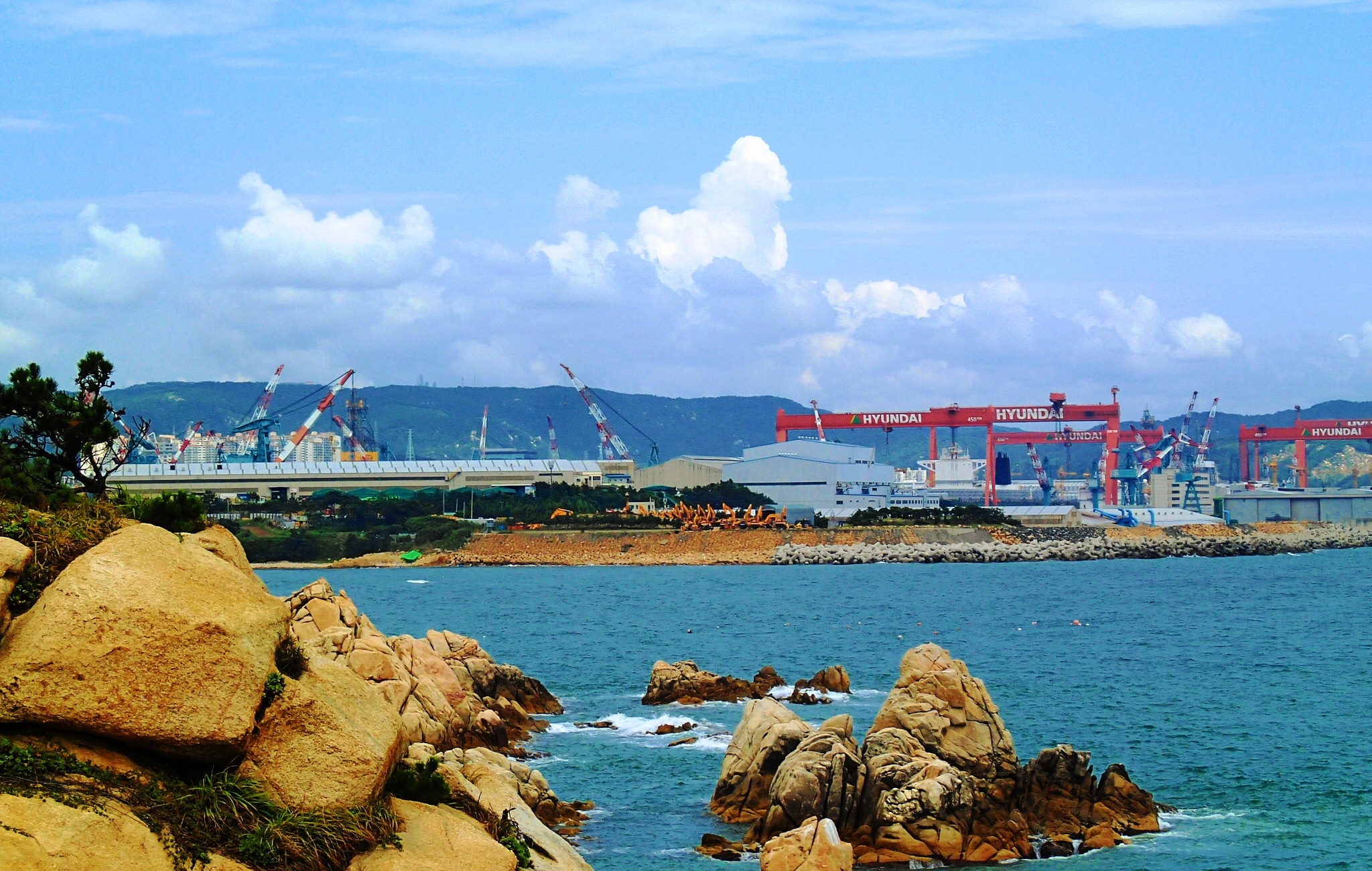 Hyundai Heavy Industries cranes and ship yard